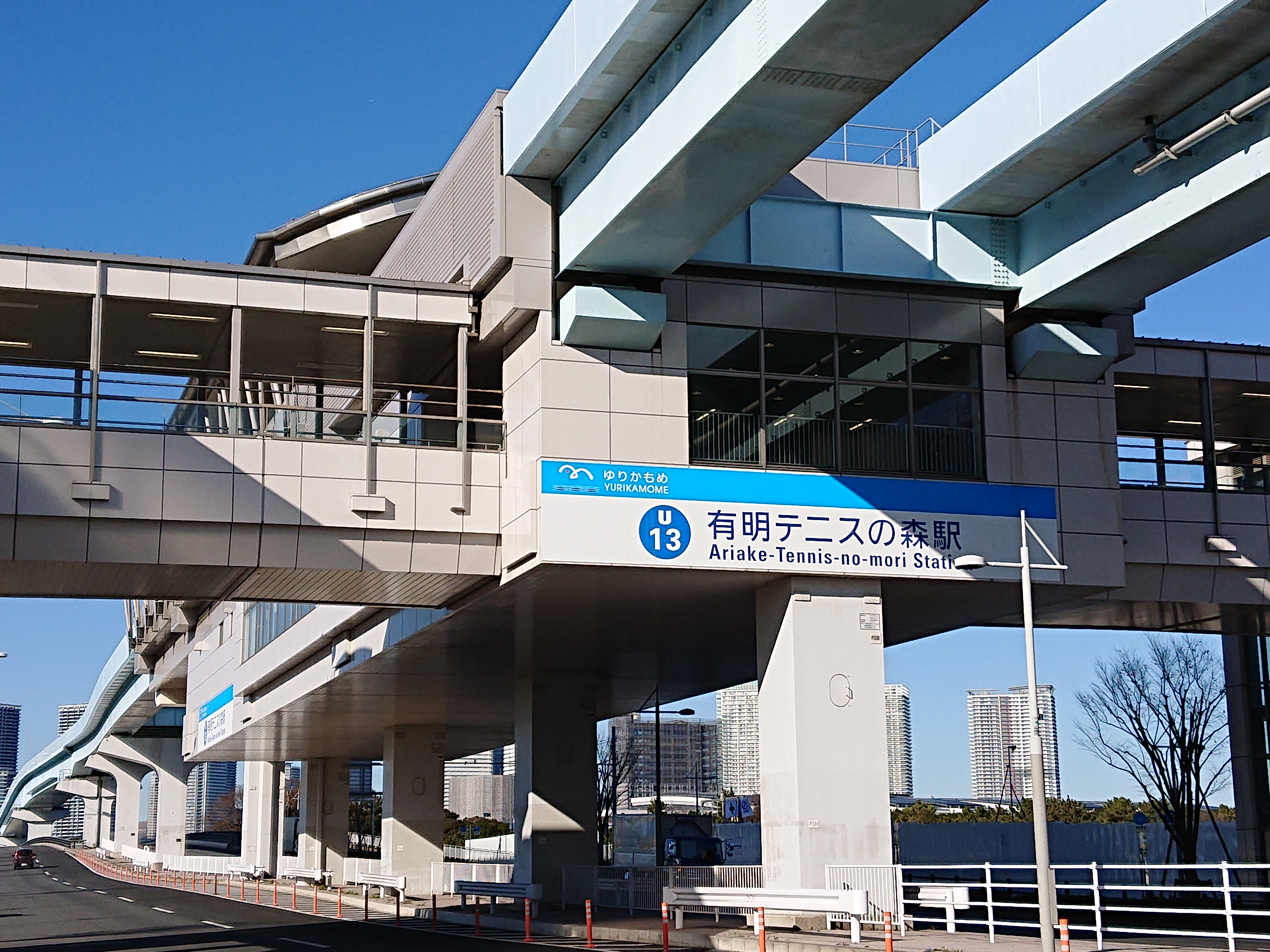 Ariake-tennis-no-mori Station, located at 1 Ariake, Koto, Tokyo, Japan